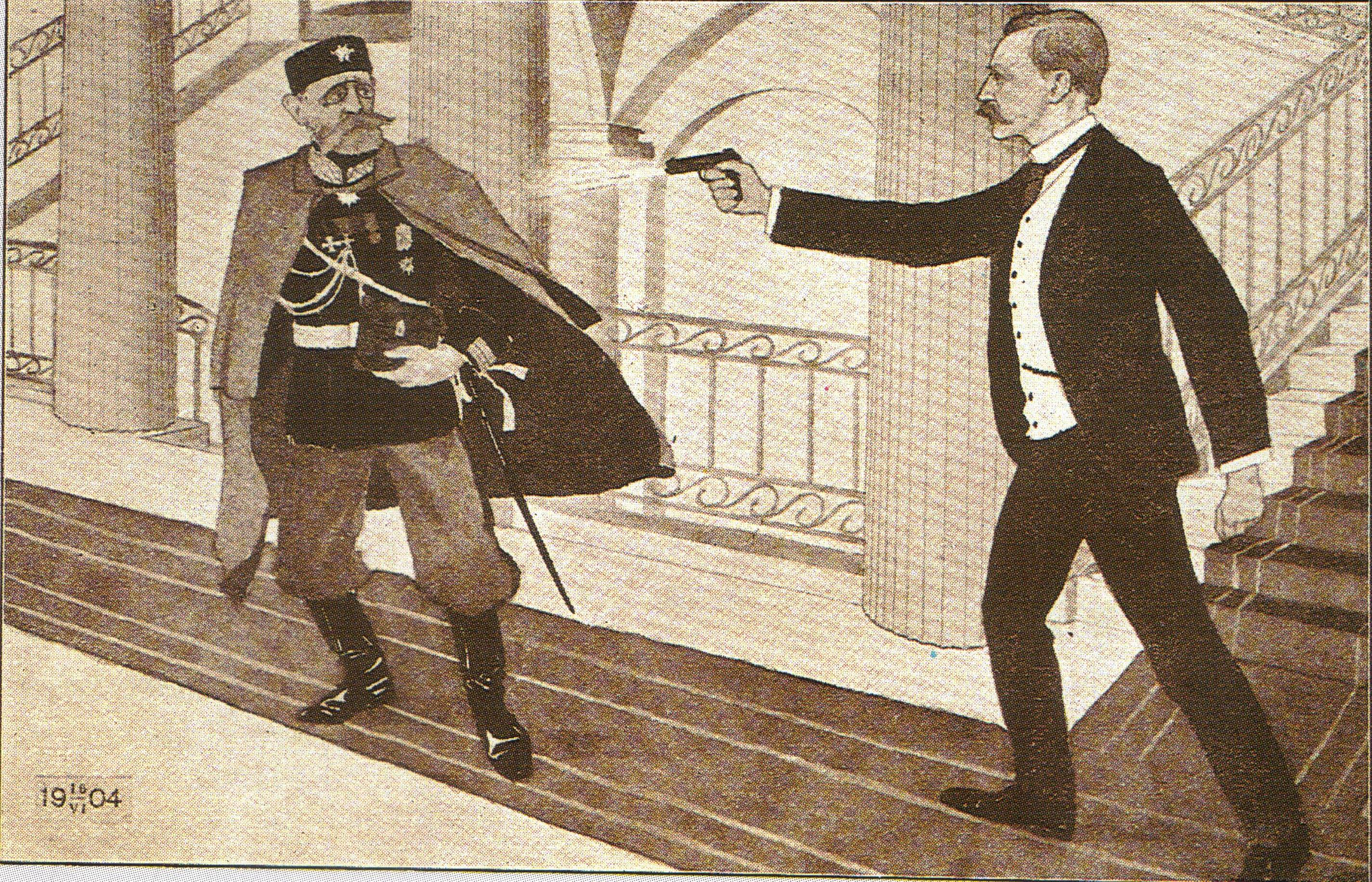 Eugen Schauman shoots Governor-General Nikolai Bobrikov.